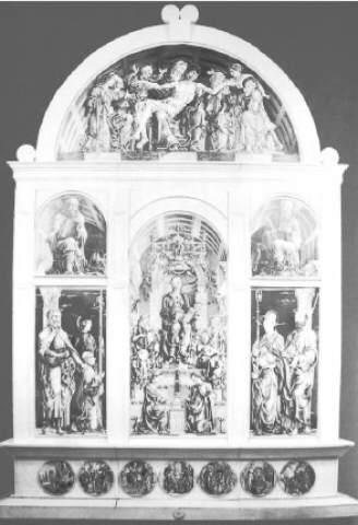 CTURA, Cosmè Roverella Polyptych Oil on wood